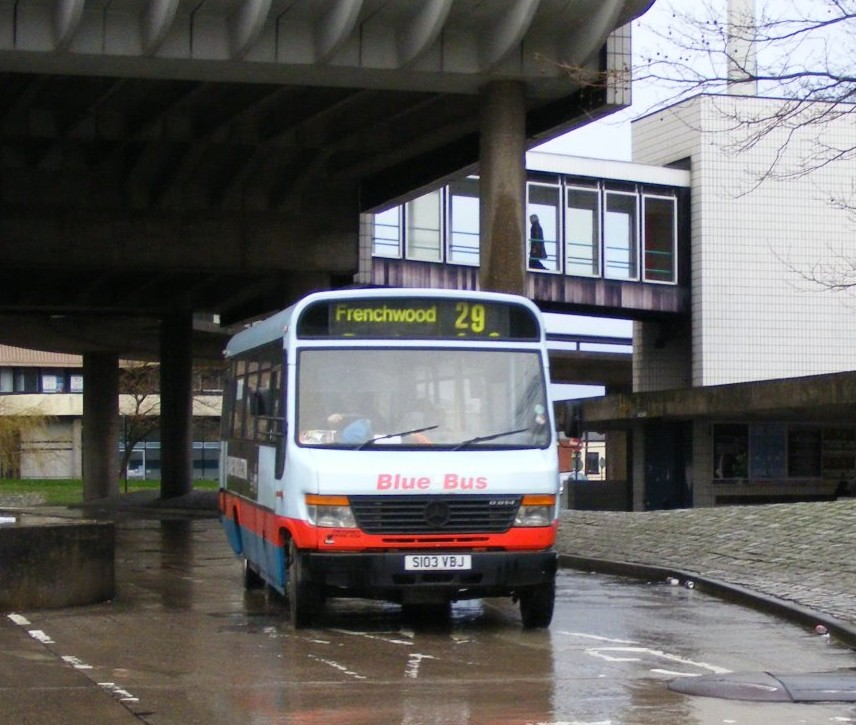 Blue Bus of Penwortham (Lancashire) S103 VBJ, a Mercedes-Benz 0814D/Plaxton Beaver 2, in Preston bus station on route 29. (Cropped)